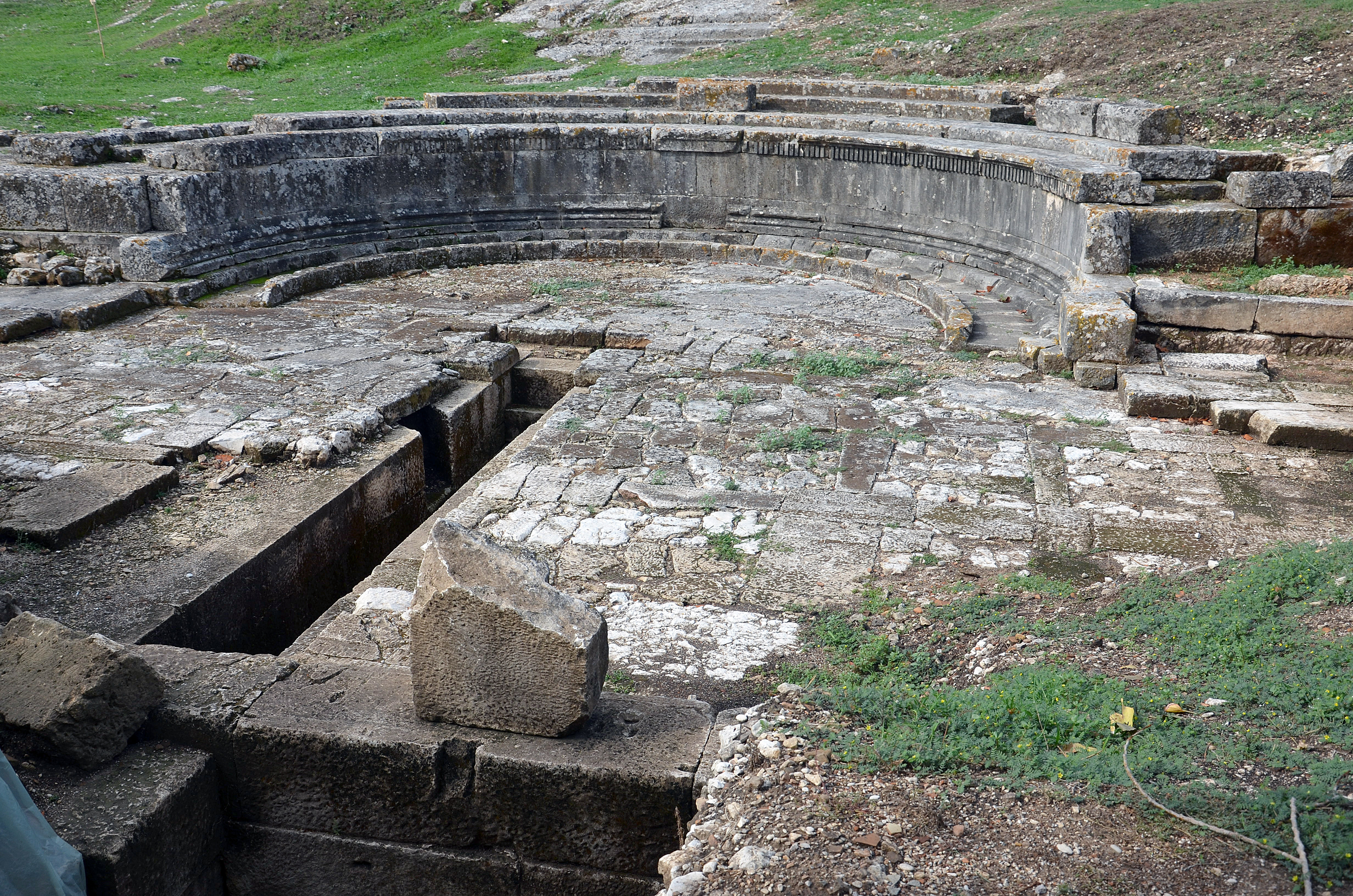 Monumental Fontana excavated in Oricum, 1958-60